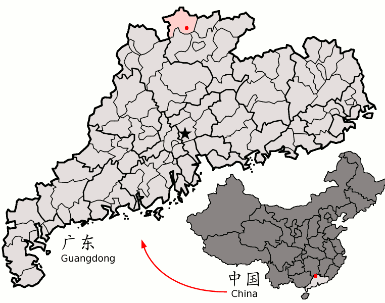 Location of Lechang city (red) and Lechang county (pink) within Guangdong province of China